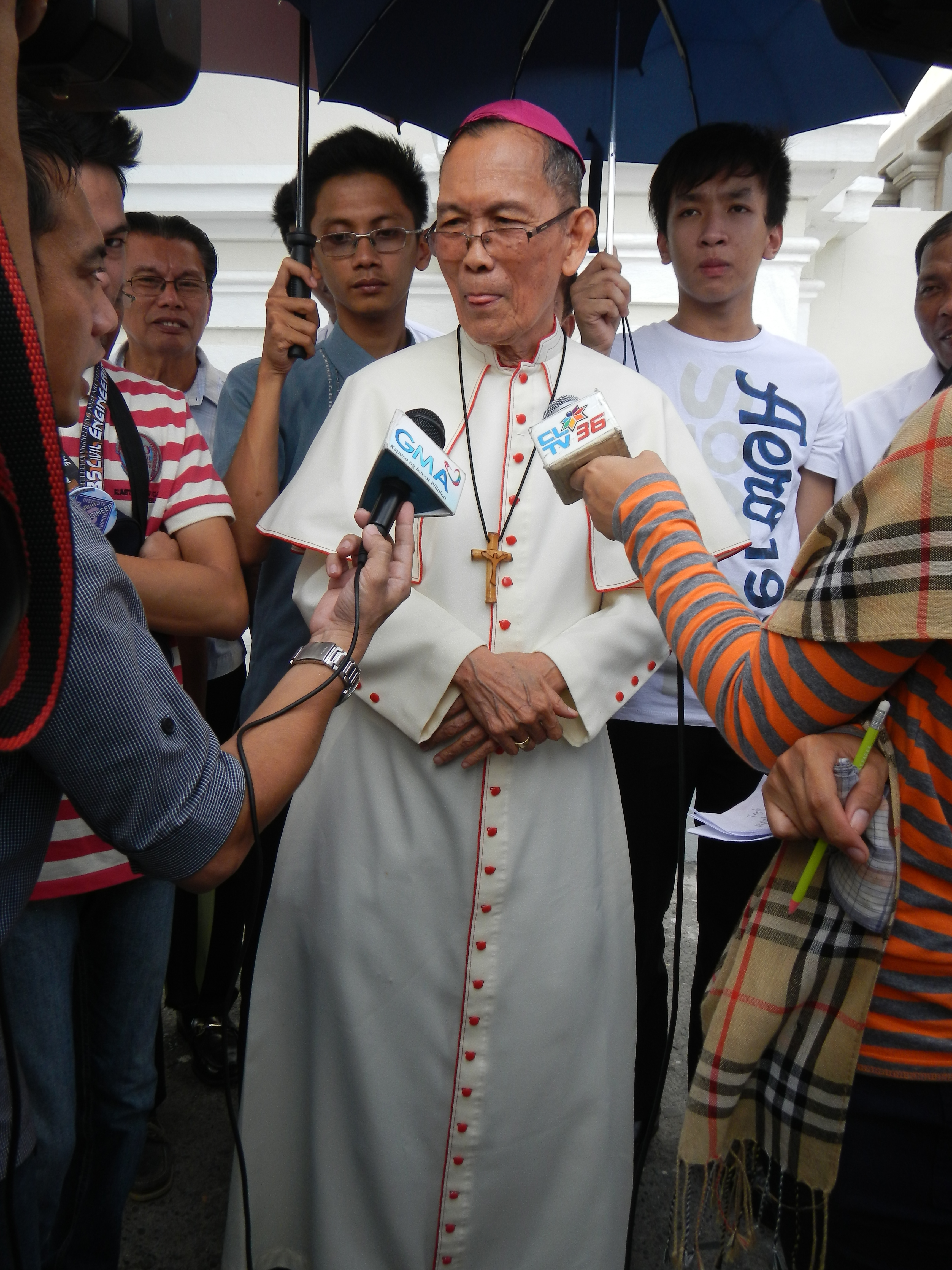 Pectoral cross - Archbishop Paciano Aniceto of the Philippines wearing a native, bamboo or wooden pectoral cross suspended by a black cord of silk cloth chain worn with both Clerical clothing or Religious habits, in a tropical cream-yellowish-white piped-cassock trimmed in an Archbishop scarlet Amaranth_(color) buttons 33 symbolic of the years of the life of Jesus wtih a cape or Pellegrina -- Paciano Aniceto interviewed by Media including Central Luzon Television CLTV-36 (as Outgoing or Retiring Archbishop in the On March 3, 2014, the a) Retable and side altars of b) St. Ferdinand of Castile and c) Virgen de los Remedios were renovated and reconstructed upon donation by the late Lazatin family - present were Governor Lilia Pineda, Mayor Edgardo Pamintuan and Mayor Edwin Santiago of Angeles City and the City of San Fernando and Mayor Marino Morales of Mabalacat City, respectively; Important Notes: Florentino Lavarias Florentino Galang Lavarias, D.D The Most Reverend Florentino Lavarias D.D. Archbishop-elect of San Fernando is the fourth and current Metropolitan Archbishop of the Roman Catholic Archdiocese of San Fernando succeeded Paciano Aniceto as the Archbishop of San Fernando. The Rite of Liturgical Reception and Canonical Possession of Florentino Lavarias as the Archbishop was held on October 27, 2014 at the Metropolitan Cathedral of San Fernando by Papal Nuncio Archbishop Giuseppe Pinto Apostolic Nunciature to the Philippines List of ambassadors to the Philippines Holy See).